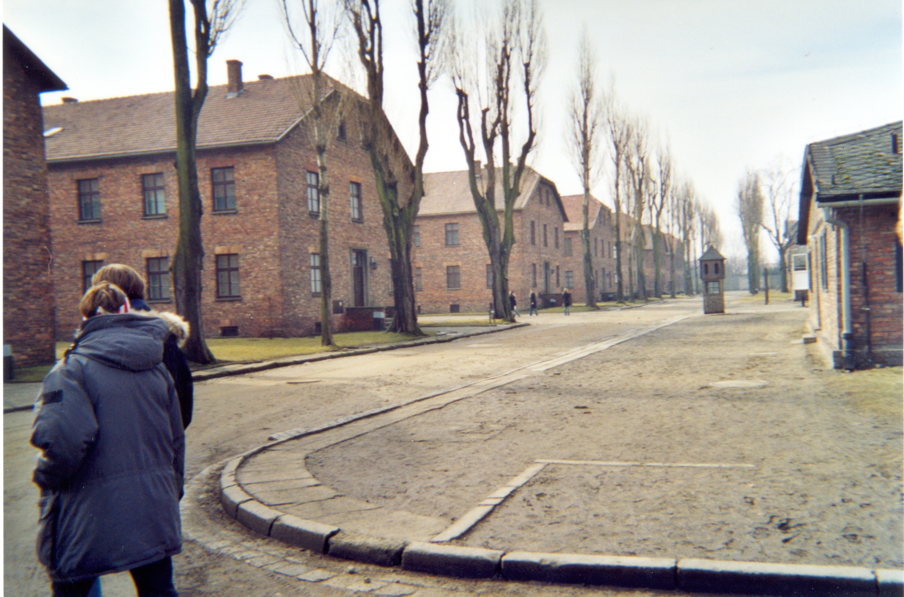 Auschwitz 1 Source: taken by user in 2003